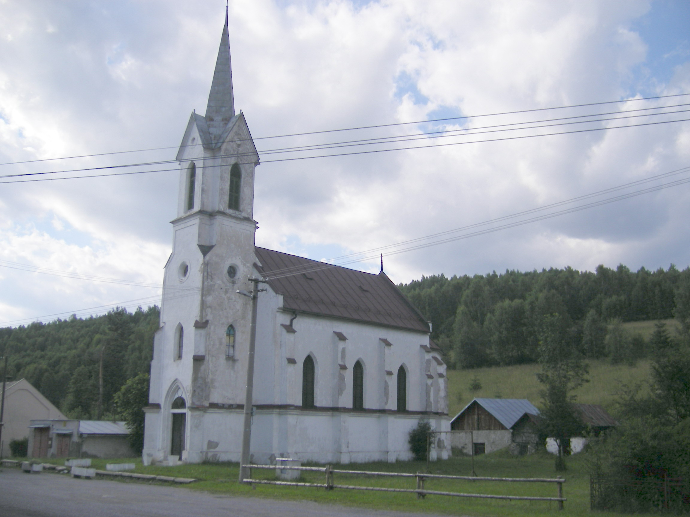 Church in Vaľkovňa, Brezno District (part Nová Maša)